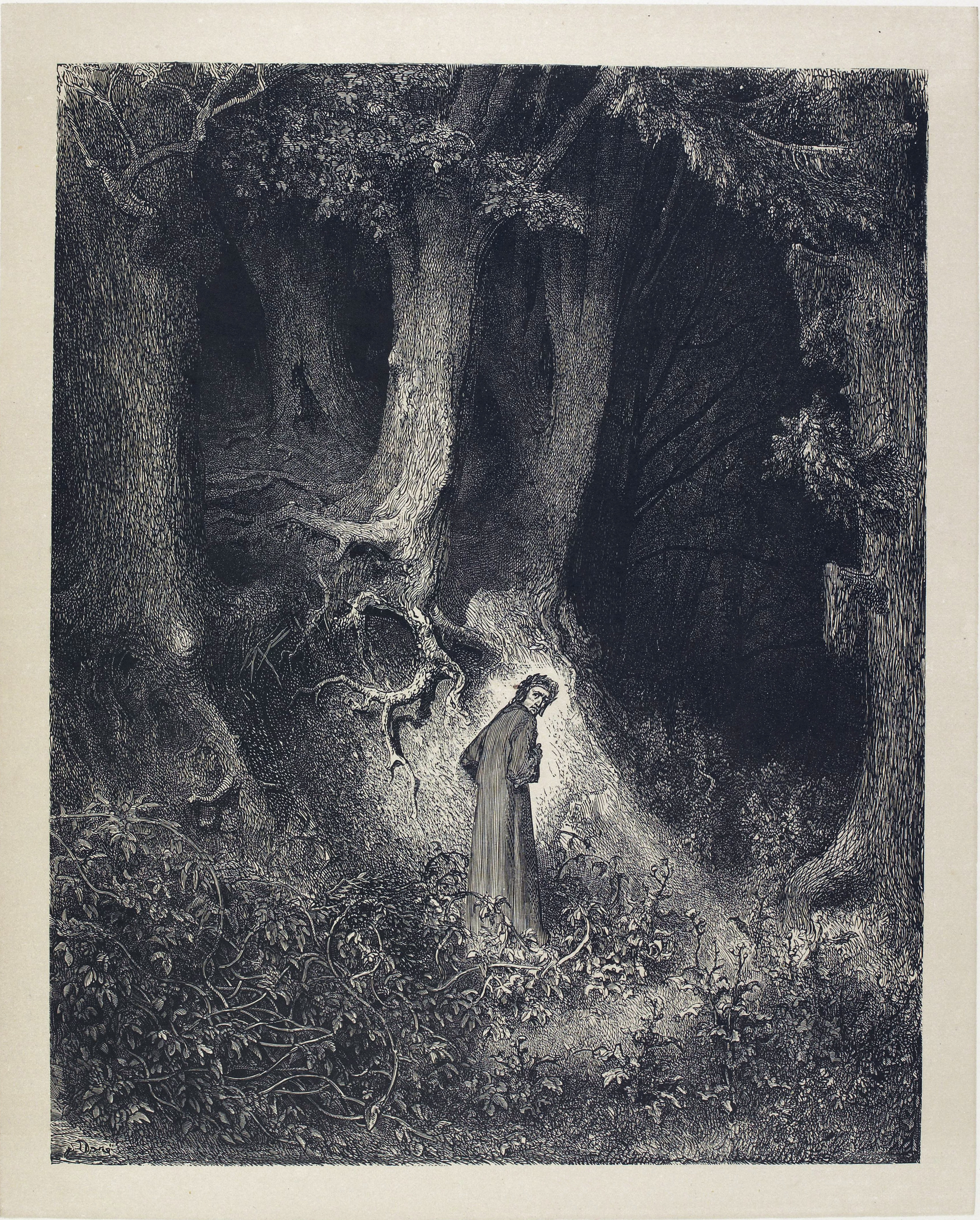 Engraving by Gustave Doré, Dante Alighieri's Divina Commedia - Inferno - I Chant